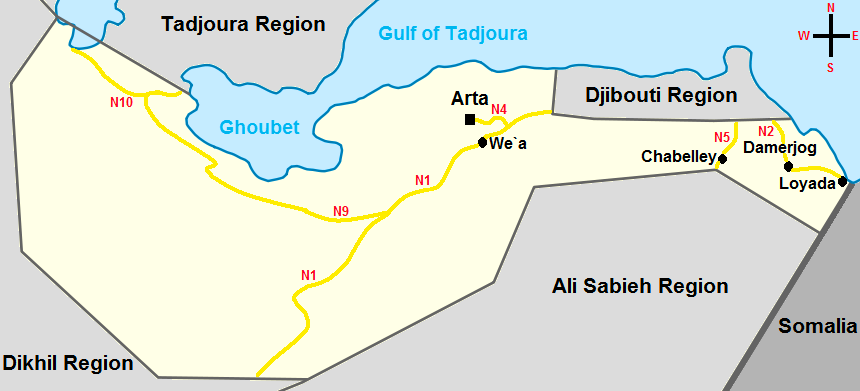 Arta Region Map